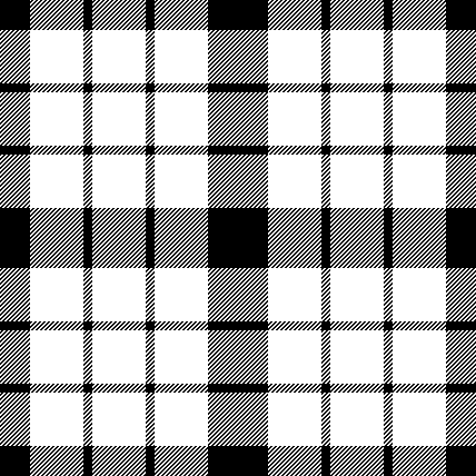 MacFarlane tartan, as published in the Vestiarium Scoticum. Modern thread count: Bk54 W48 Bk8W48.